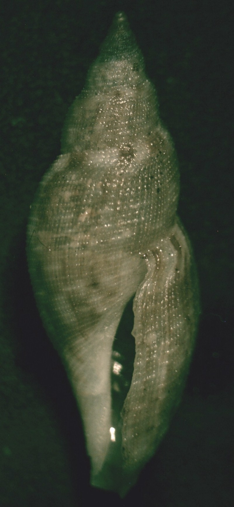 Daphnella radula H. A. Pilsbry, 1904 a cone snail from the family Conidae; Philippines